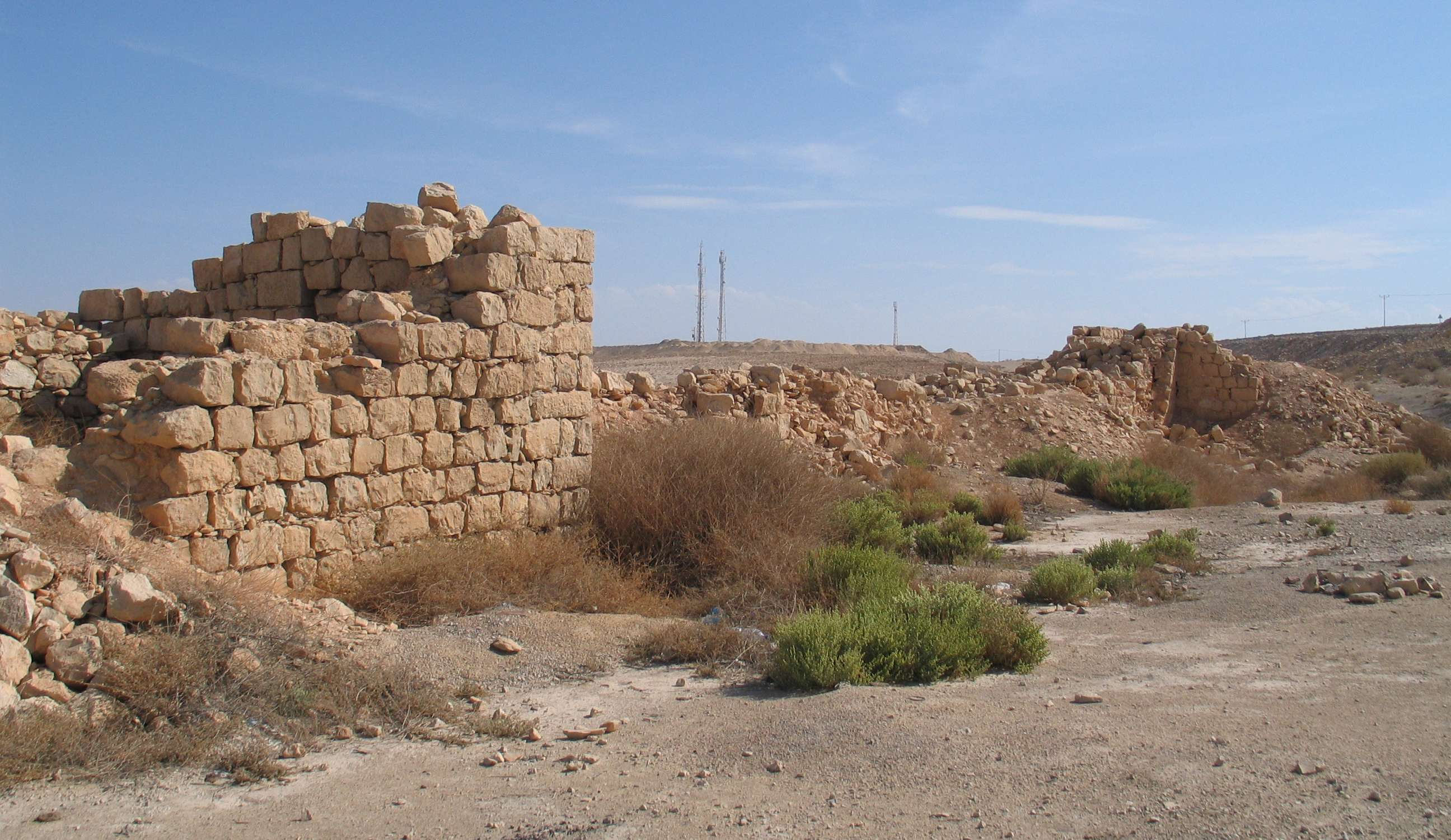 Tamar fortress east of Dimona, Israel.